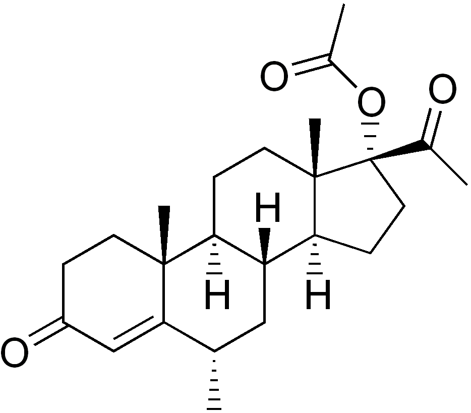 chemical structure of medroxyprogesterone 17-acetate